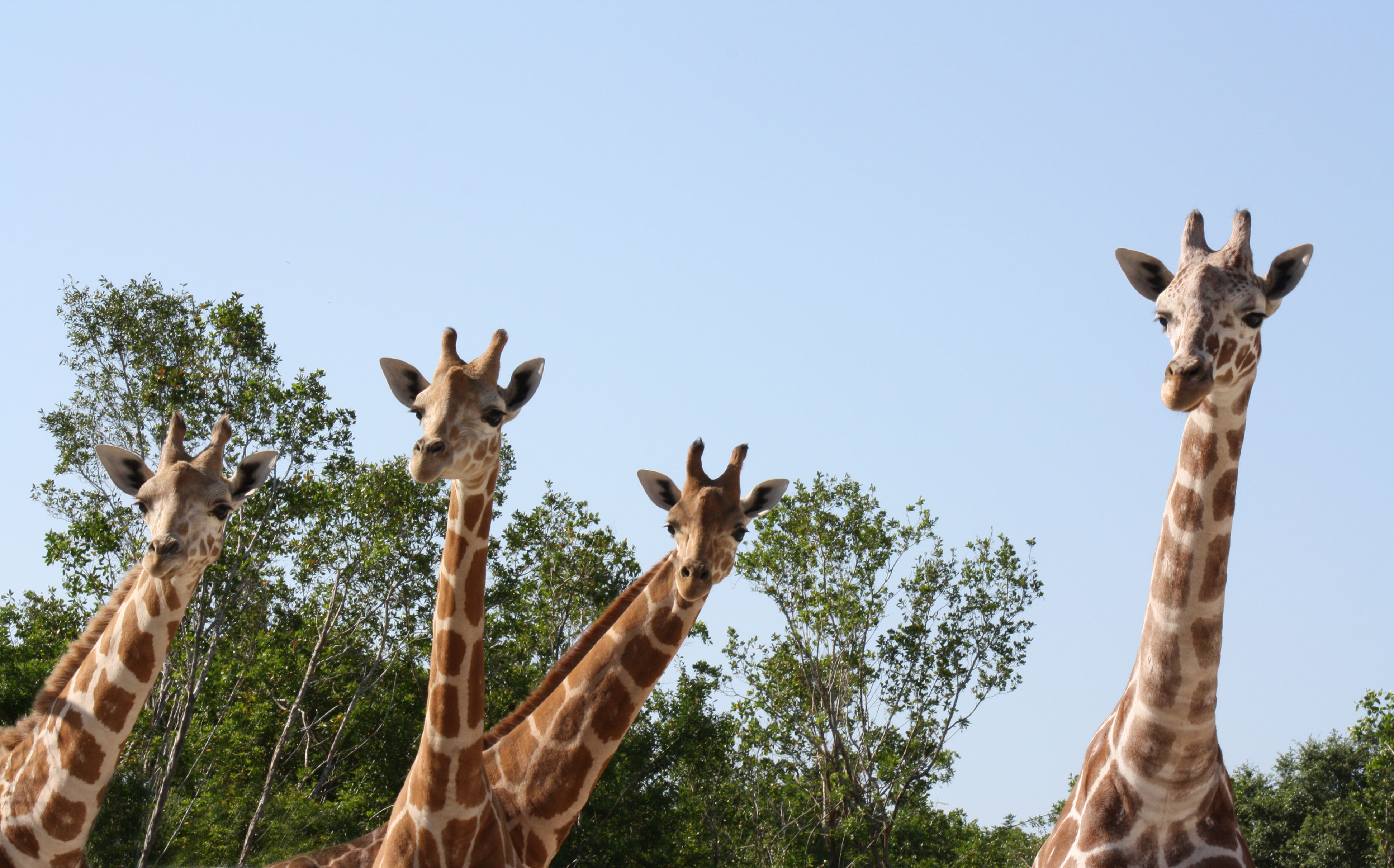 Photo of the giraffes at Naples Zoo